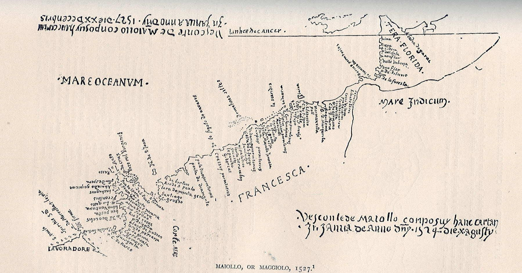 Image of manuscript map in the Ambrosian Library in Milan by Vesconte Maggiolo